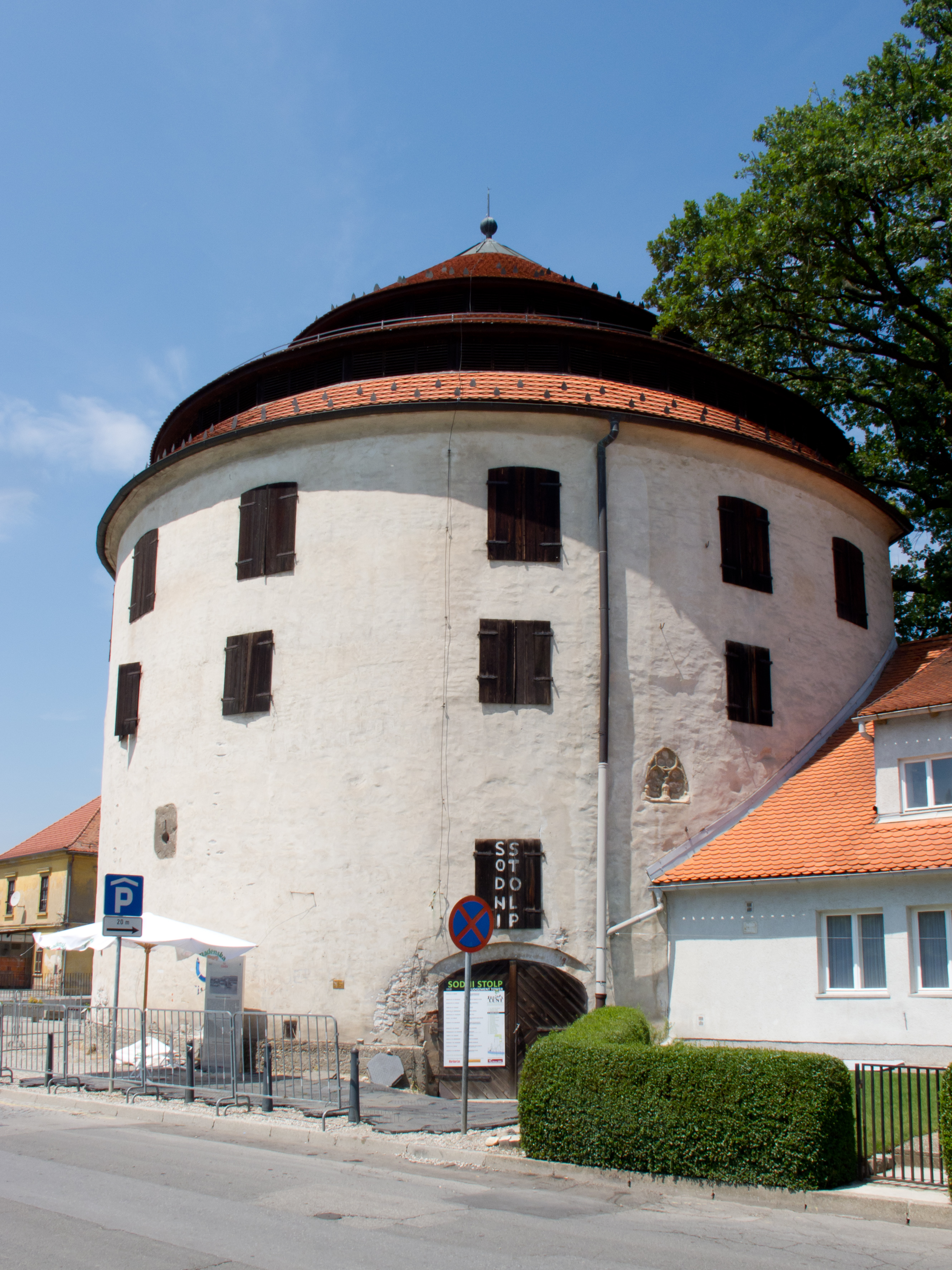 Judgement Tower, Maribor.